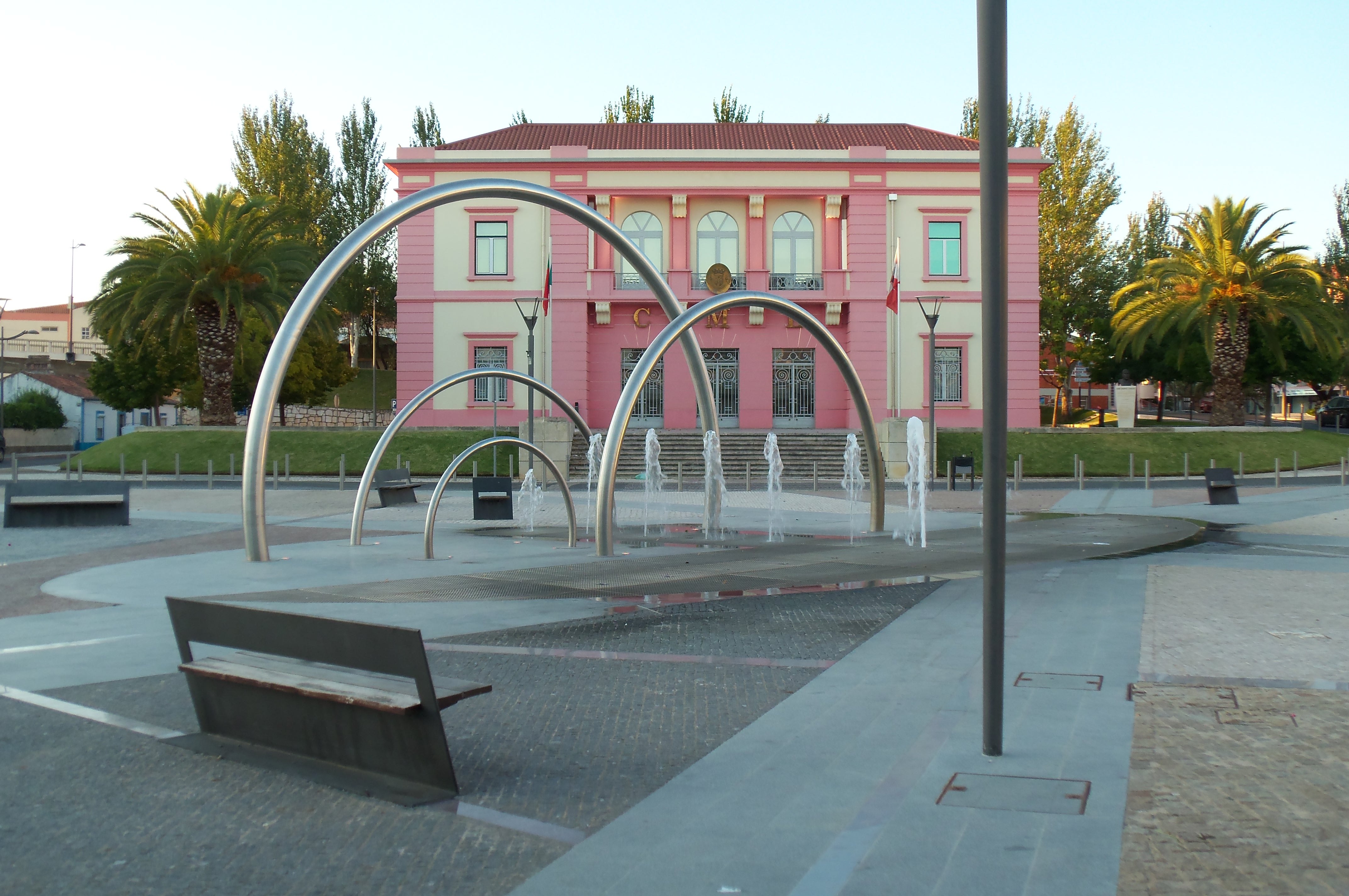 Entroncamento City Hall and off the front light water sources.